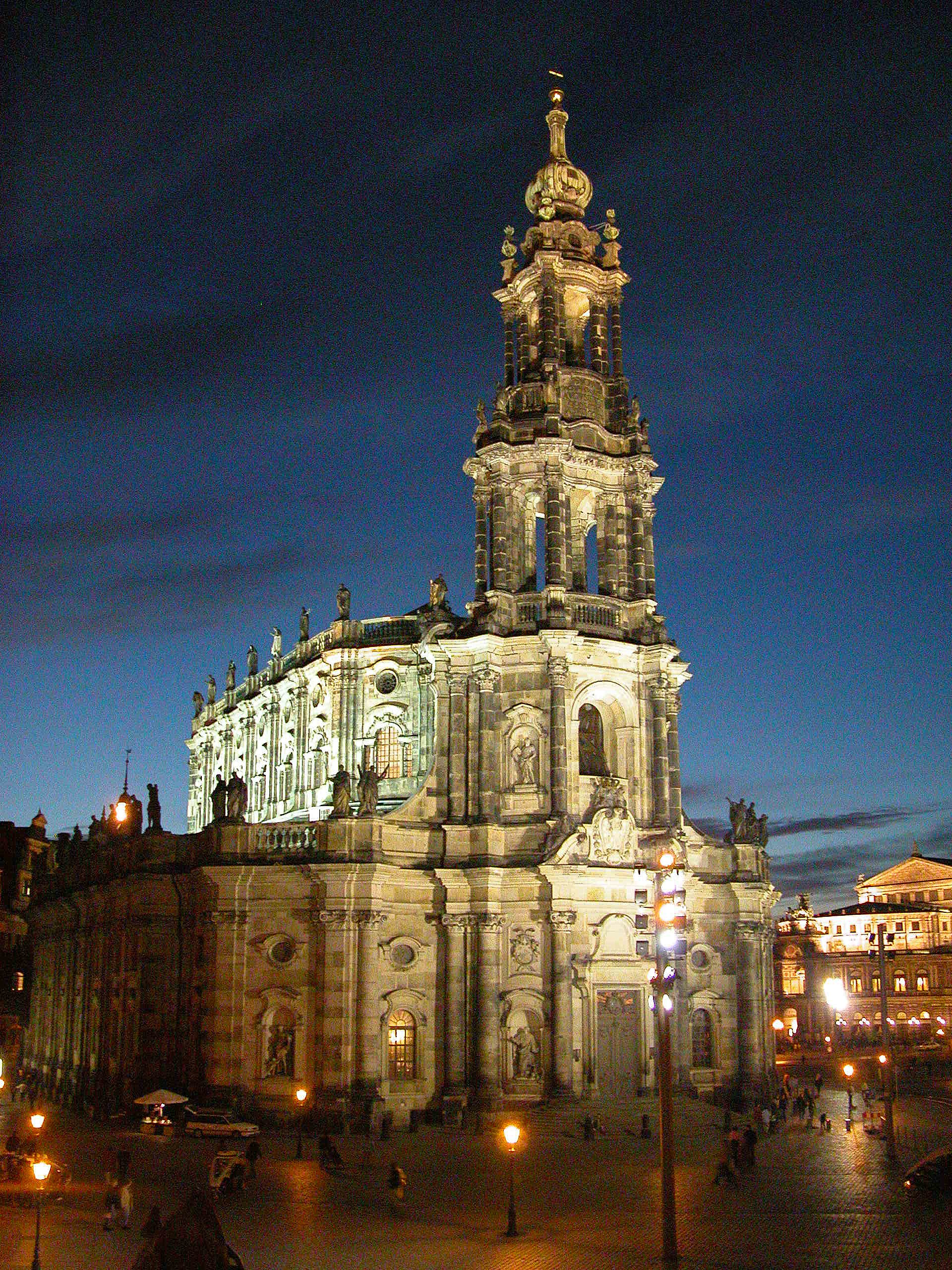 Hofkirche in Dresden